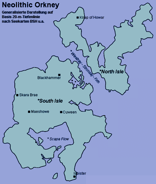 Neolithic Orkney - Orkney Islands at 20m submarine contourline